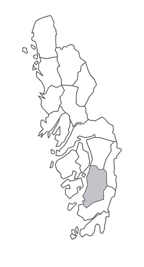 Map describing the location of Inlands Nordre Hundred in Bohuslän Province, Sweden.